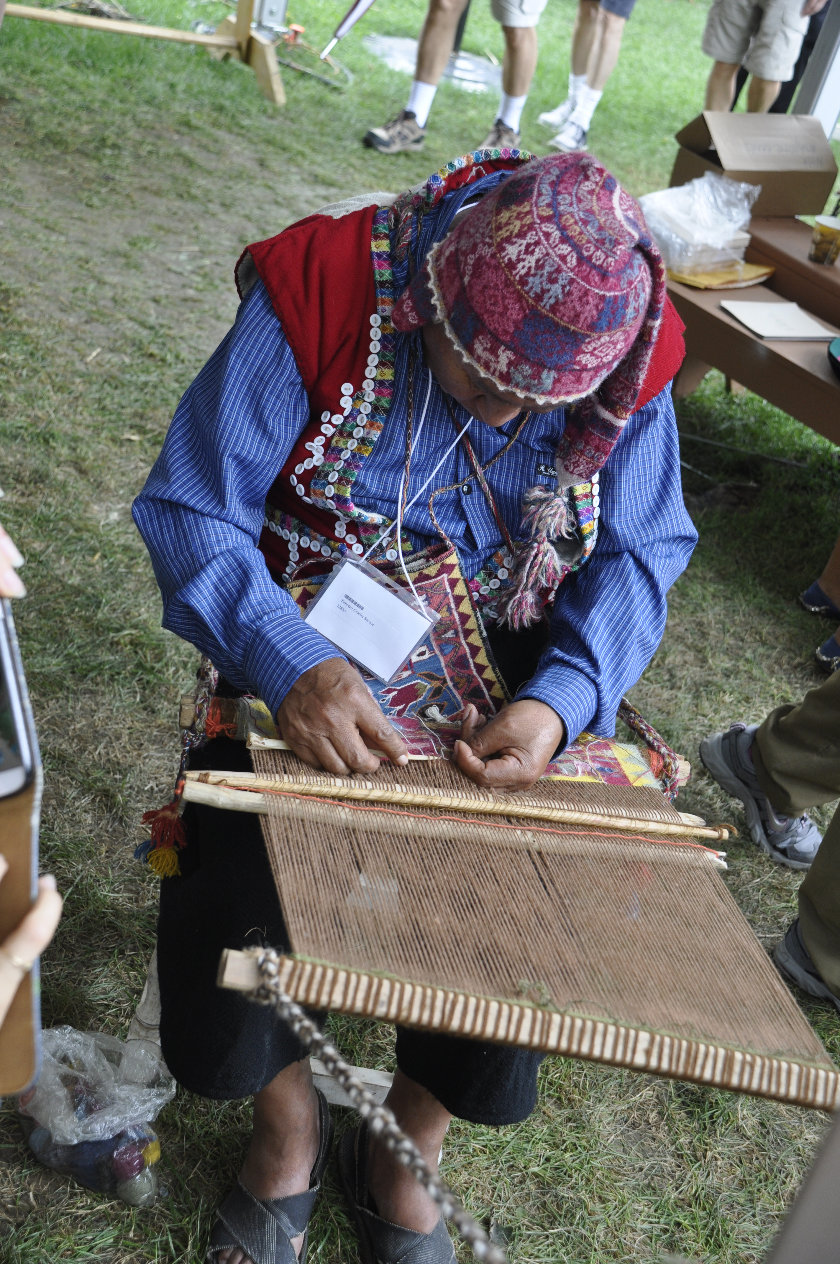 Cusco weavers from Chinchero community. In the 1970s, weavers from the Chinchero community formed a group to revitalize and reinforce the traditional textiles of the region, which were decreasing in quality and using synthetic dyes. In 1996, Nilda Callañaupa Álvarez created the Centro de Textiles Tradicionales del Cusco.[1]